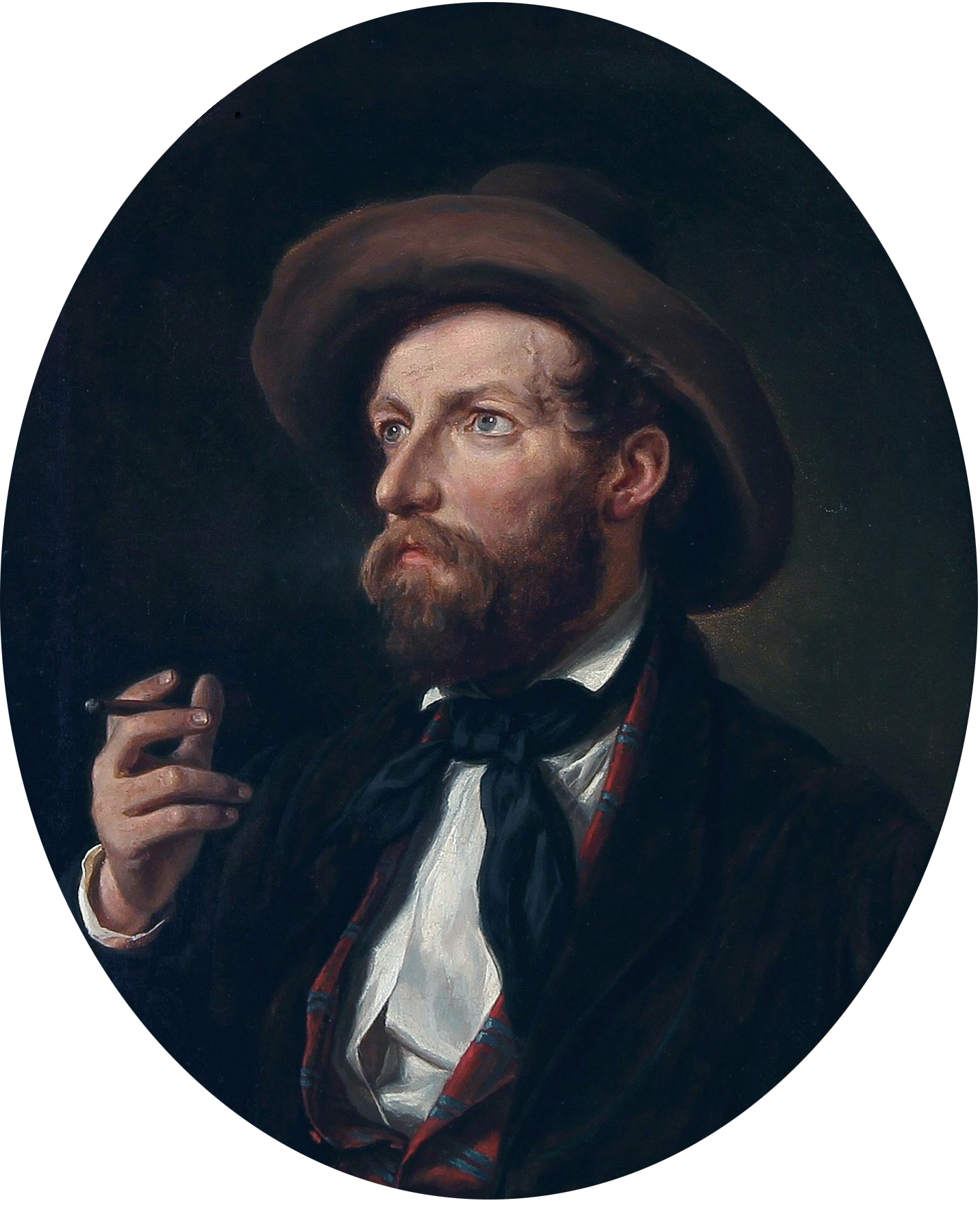 Depicted person: Anders Christian Lunde